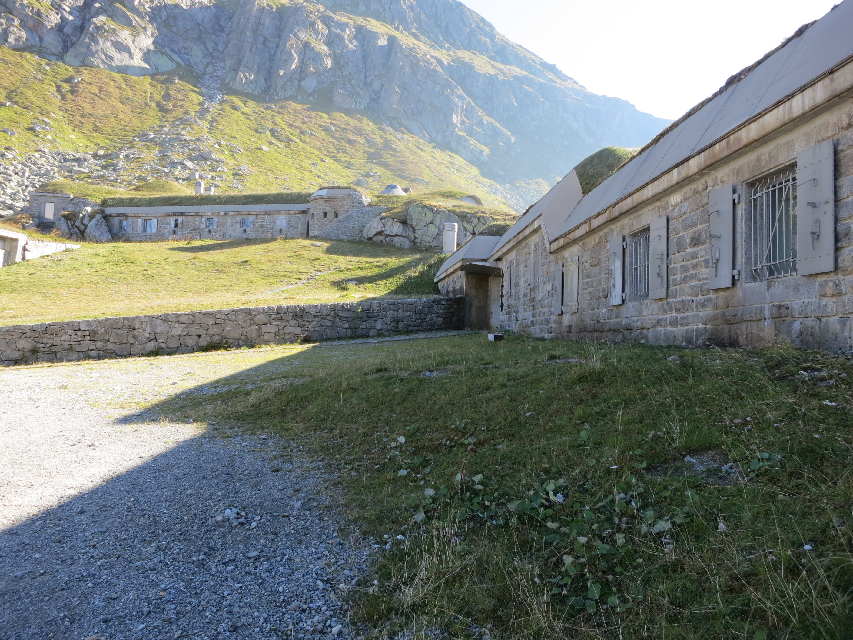 Fort Hospiz, Airolo, Schweiz